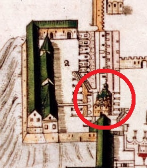 Sretensky Cathedral in Moscow Kremlin on the Kremlenagrad map